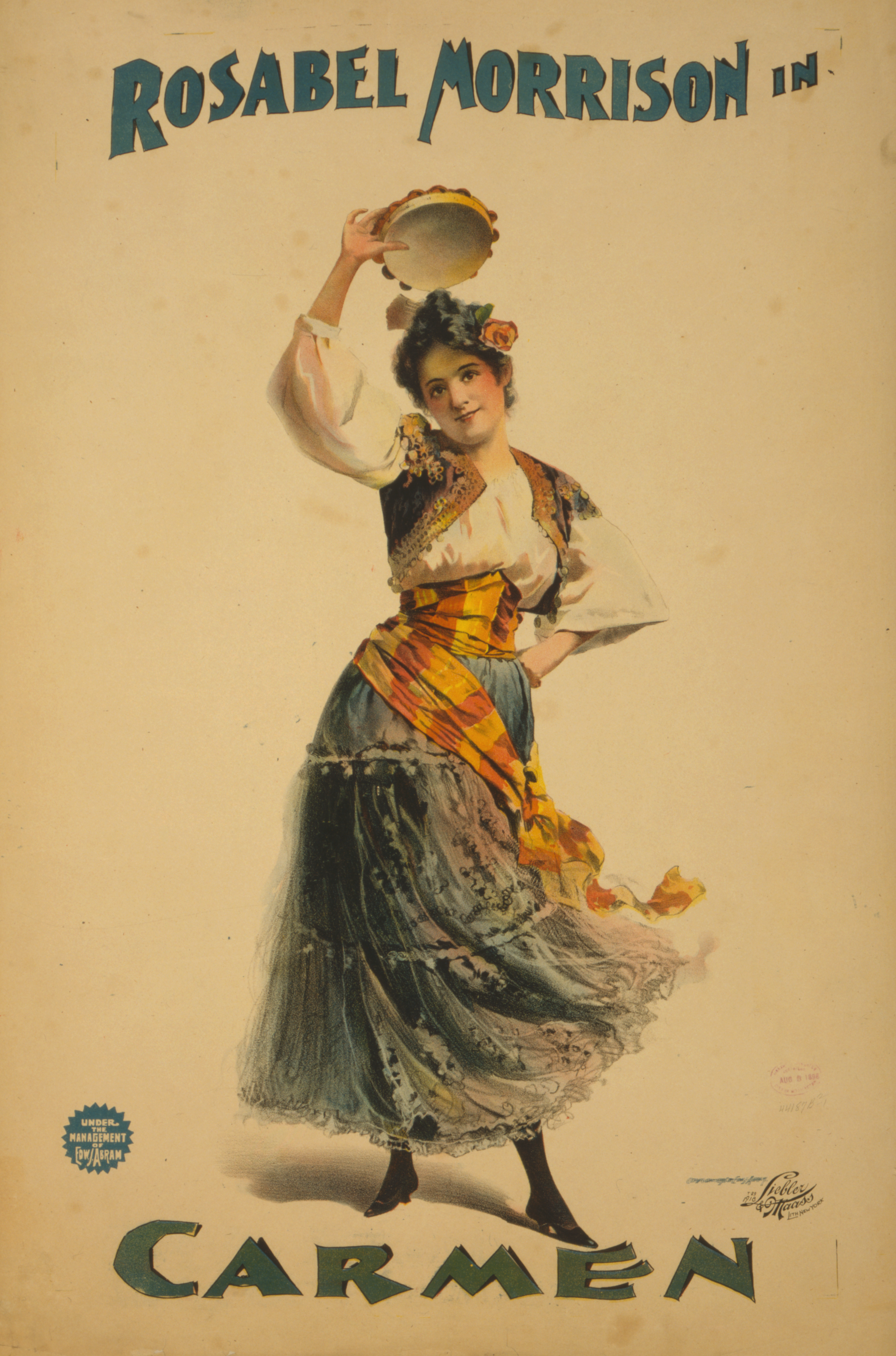 Unrestored (but cropped) version of File:Georges Bizet - Rosabel Morrison - Carmen poster.png. Poster for an 1896 dramatic adaptation of Carmen, starring Rosabel Morrison, and under the management of Edward J. Abram